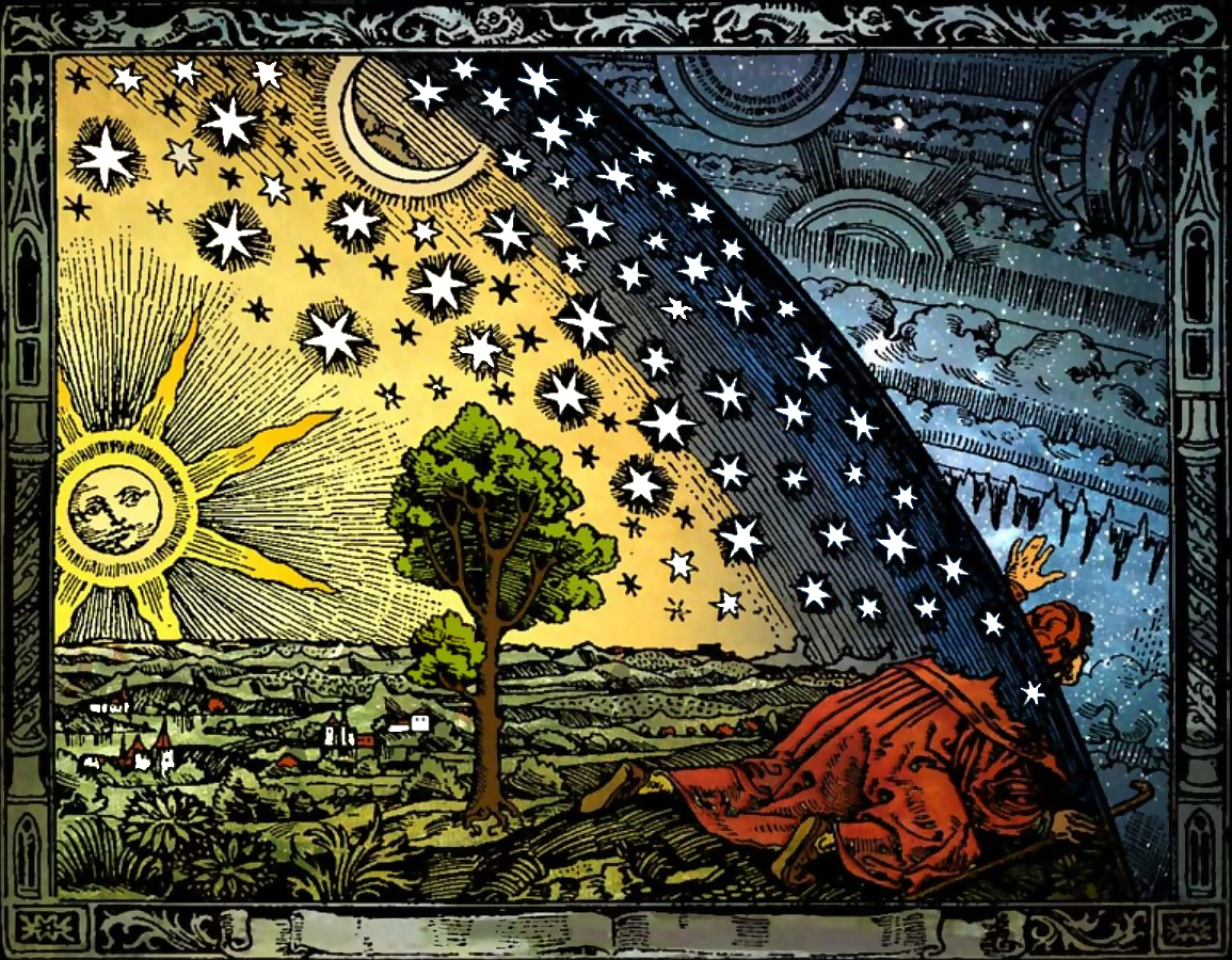 Original - Camille Flammarion, 1888; Color : Hugo Heikenwaelder, 1998; Changes: Jürgen Kummer, 2010 Changed: Mirror-inverted, "Urbi et Orbi" removed, Flammarions stars and buildings colored white, lowest branch of the tree colored